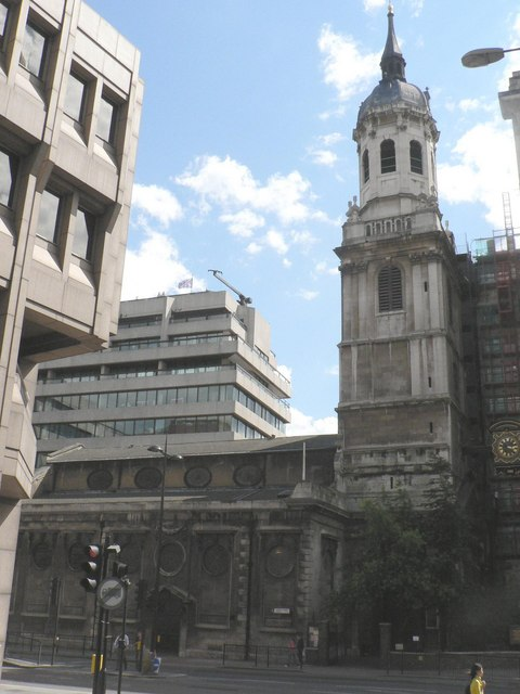 City parish churches: St. Magnus the Martyr, City of London, Great Britain. In Lower Thames Street, opposite Fish Street Hill. Rebuilt by Christopher Wren following the great fire in 1671-87.